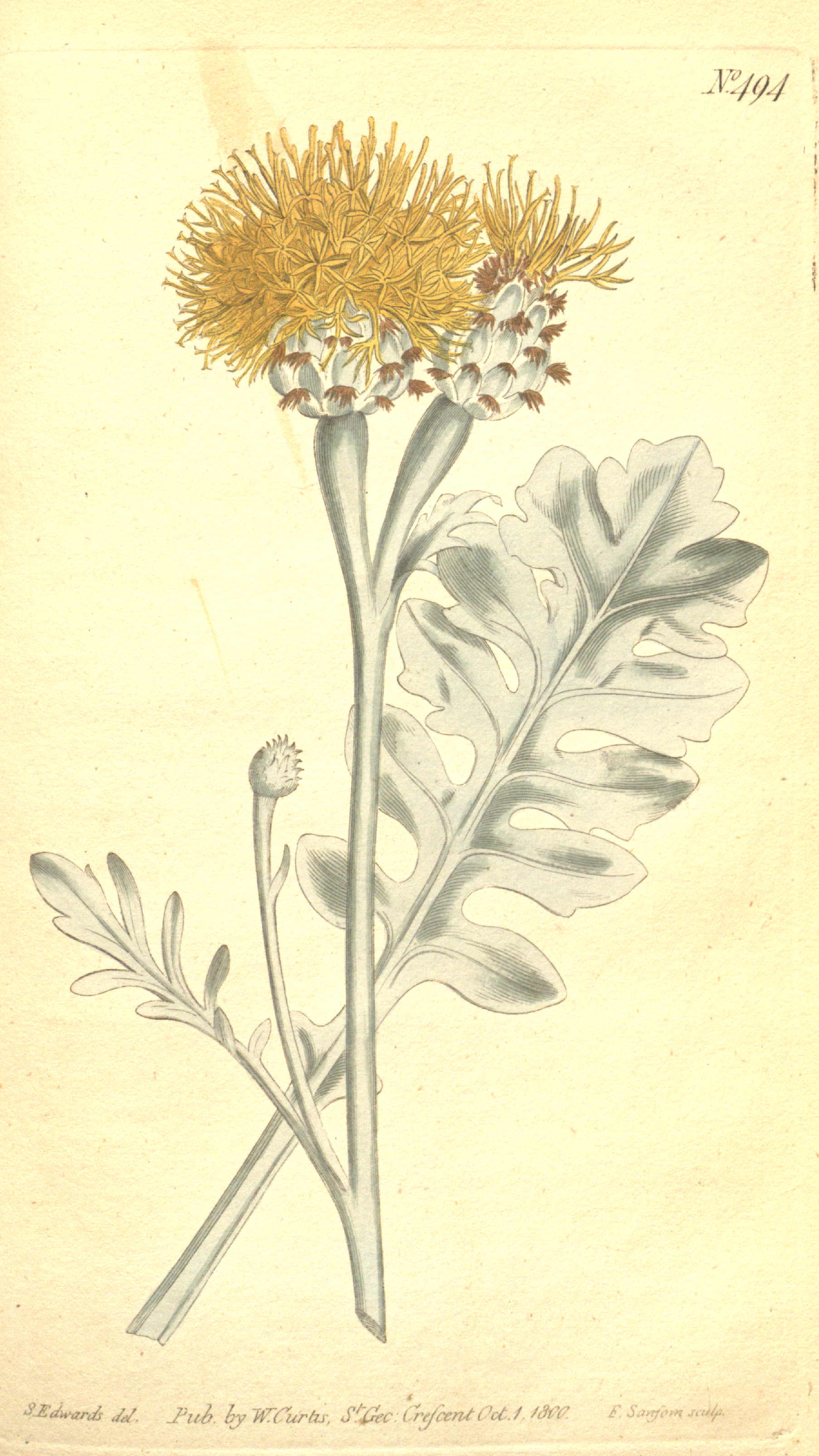 This is a plate from The Botanical Magazine, Volume 14.